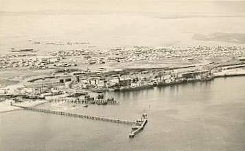 aerial view of Walvisbaai (early 20th century)